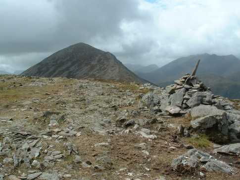 Photograph of the summit of Purple Mountain from the summit of Purple Mountain North East Top (e.g. looking southwards). The MacGillycuddy's Reeks are behind and right.